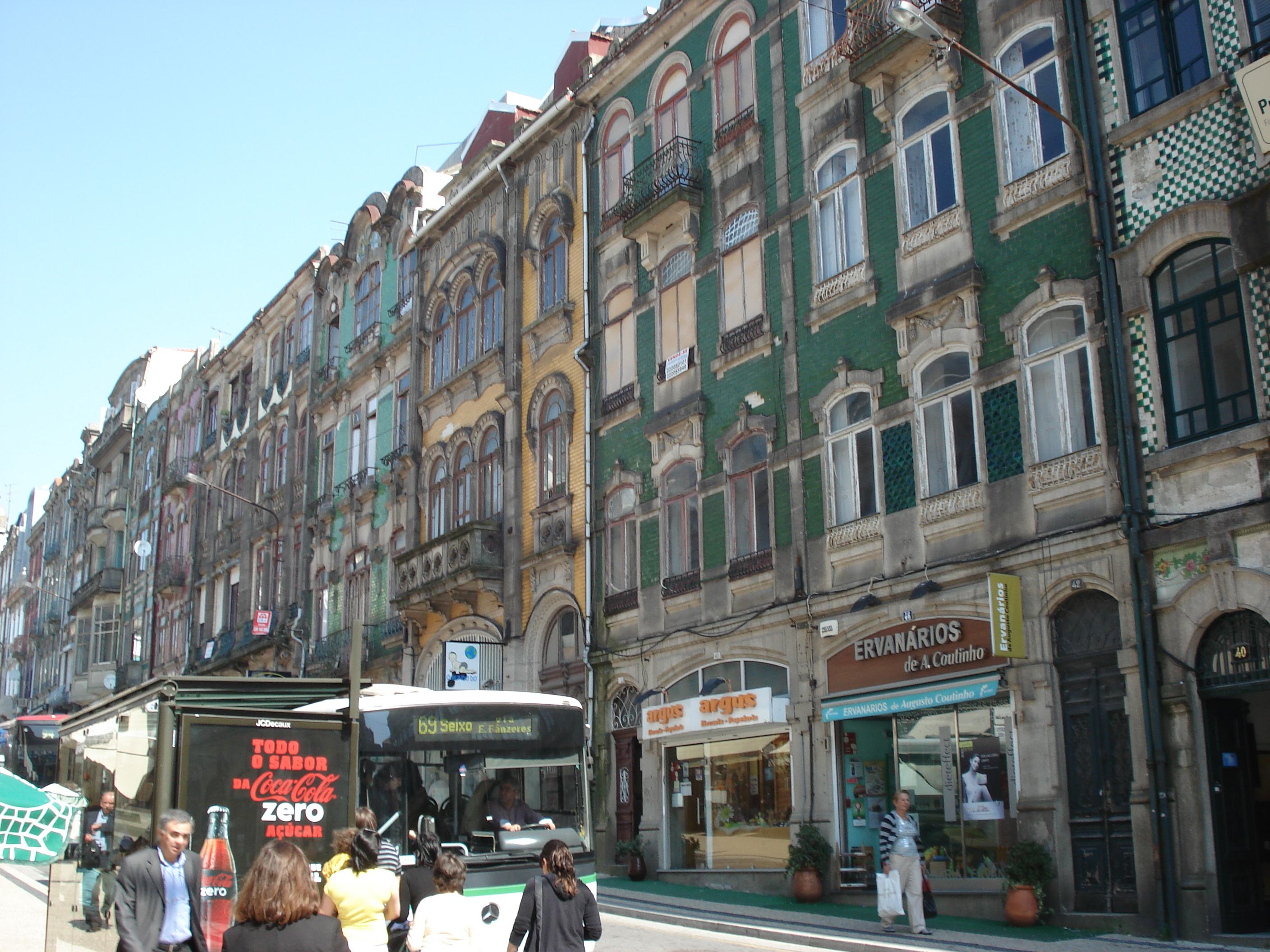 Houses in Rua Alexandre Braga, freg. Santo Ildefonso, Porto , Portugal